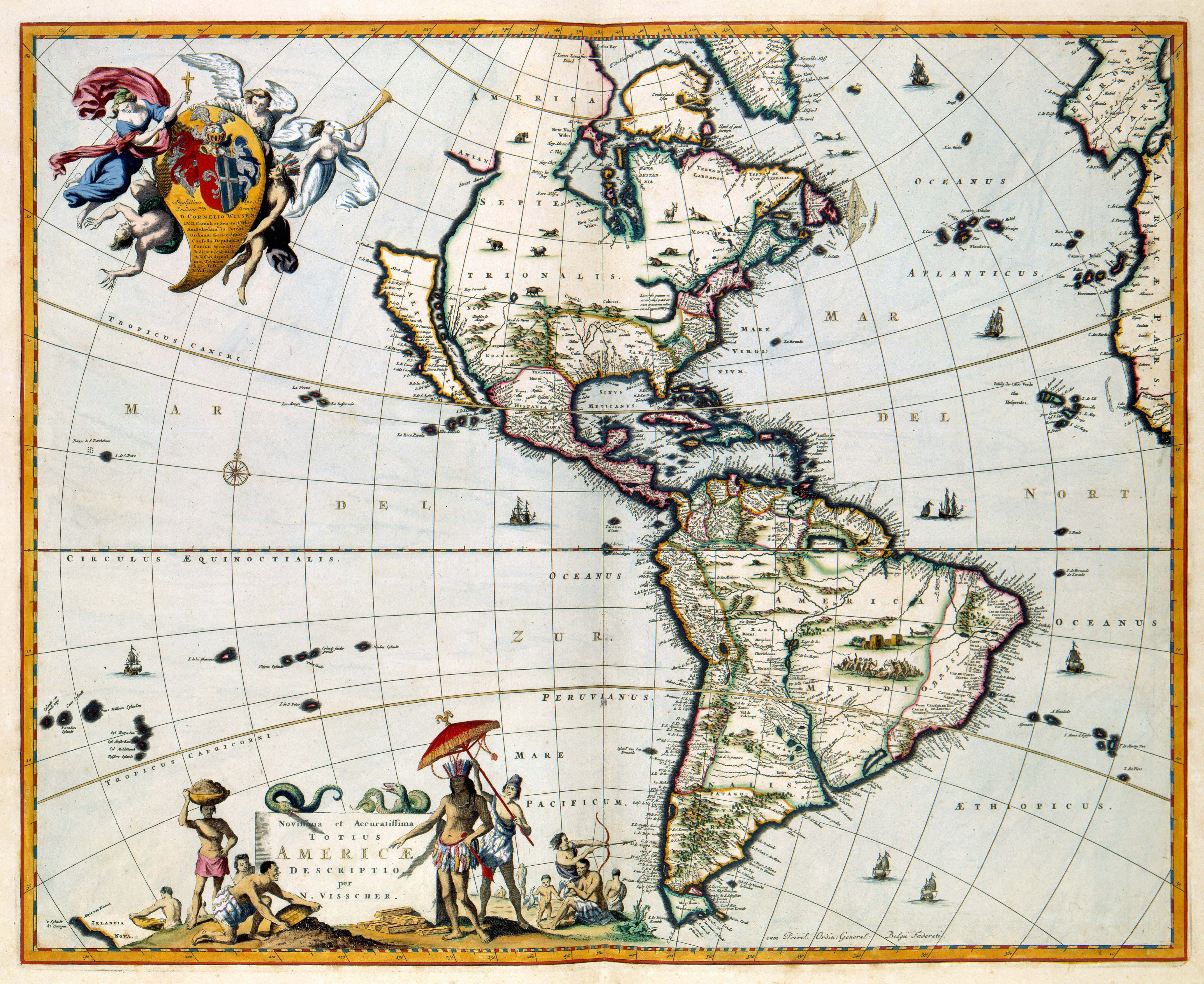 This map by Nicolaes Visscher II (1649-1702) is an altered reproduction of a map published in 1658 by his father Nicolaes Visscher I. The map had great influence on other maps of America in the 17th and 18th centuries. The east coast especially, is very accurately represented. This is not the case with the American westcoast, where California has been represented as an island.